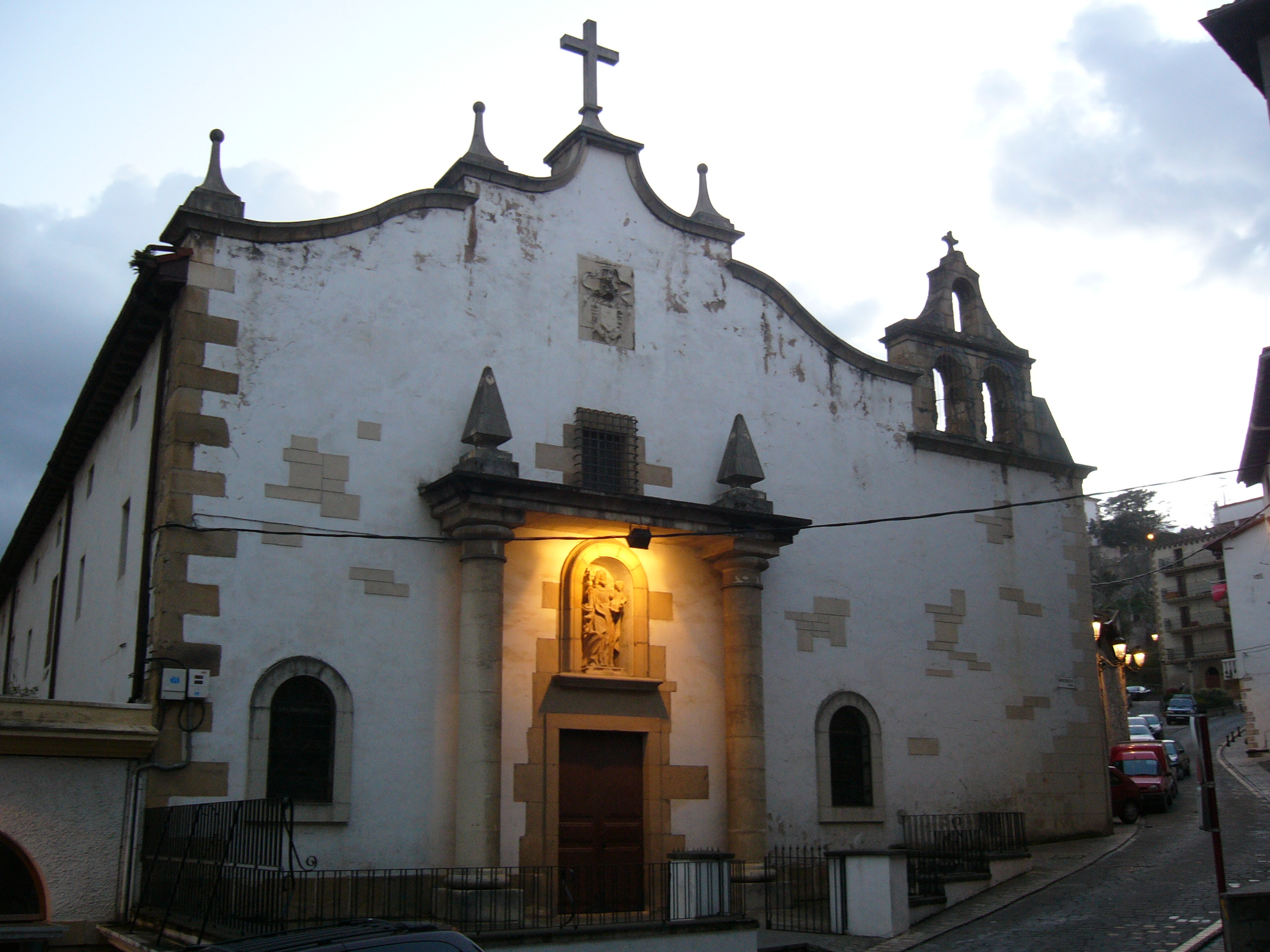 Convent of Saint Joseph (Gipuzkoa)